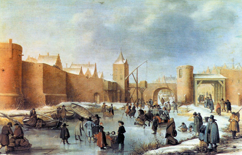 Winter landscapes